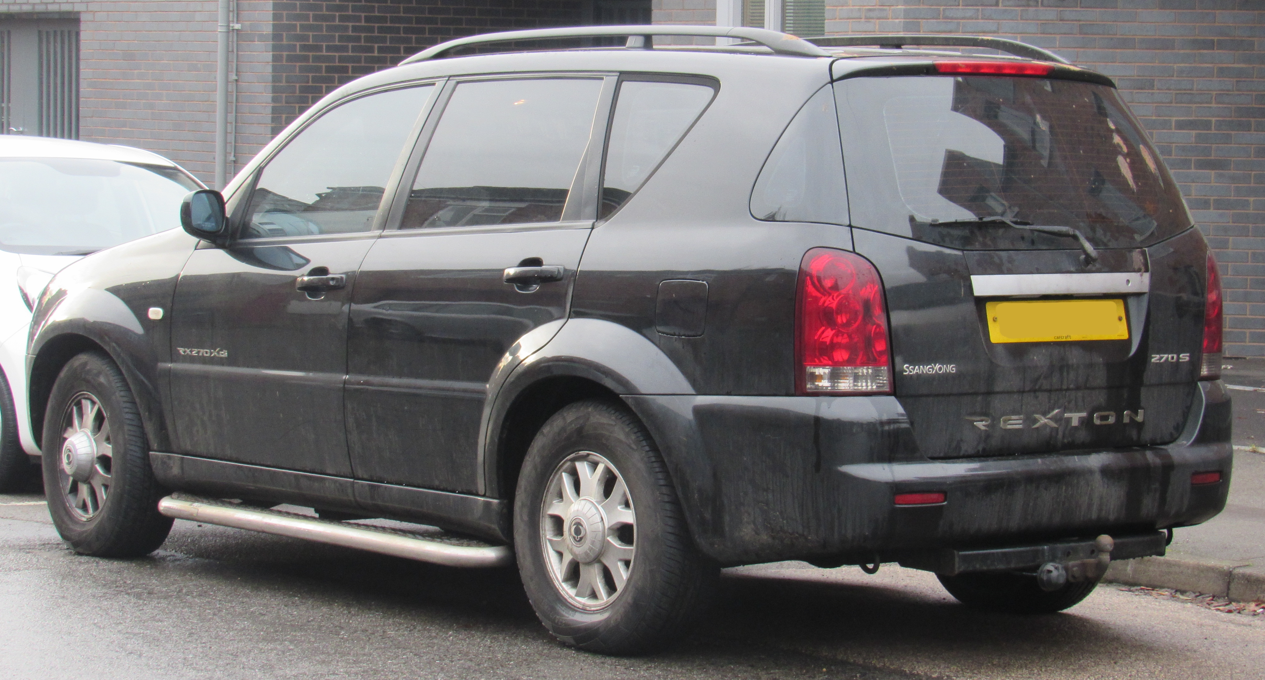 2005 SsangYong Rexton RX270 S 2.7 Rear (Ugliest manufacturer wheels I ever seen.) Taken in Warwick